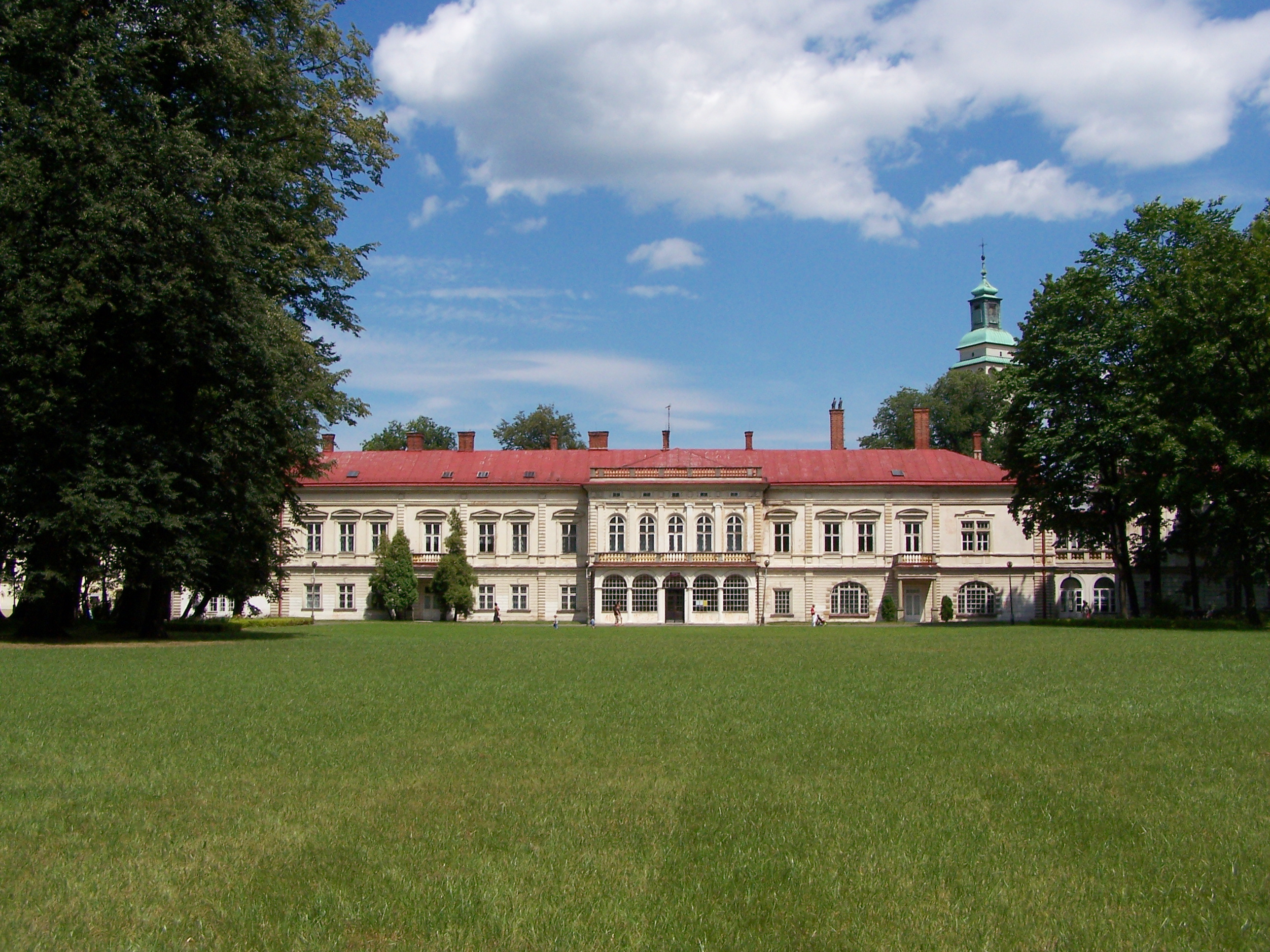 Palace in Żywiec (Poland).